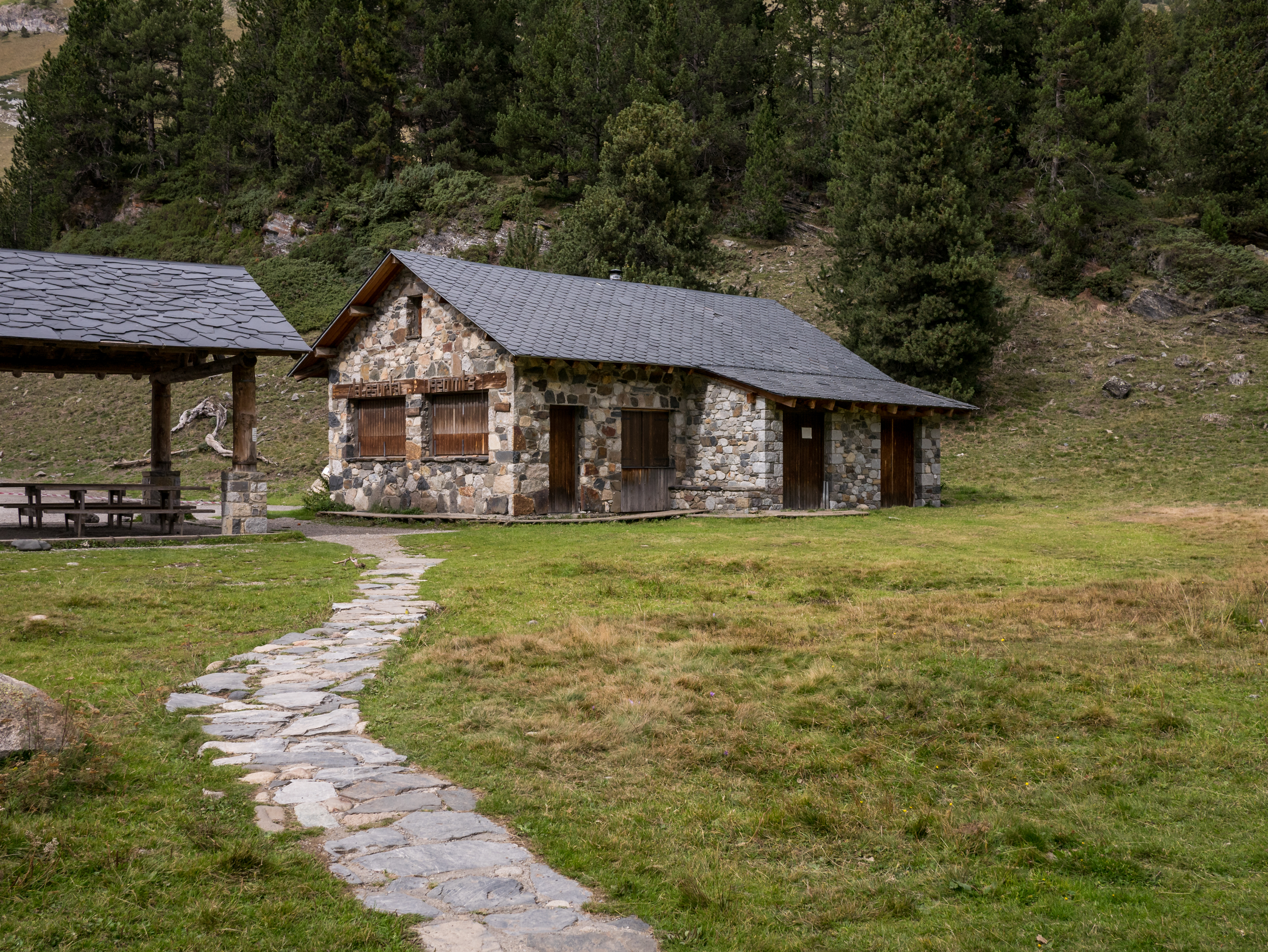 Track leading from Llanos del Hospital to La Besurta. Benasque, Huesca, Aragon, Spain